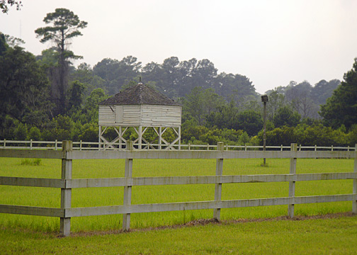 Mansfield Plantation — a rice plantation in Georgetown County, South Carolina.